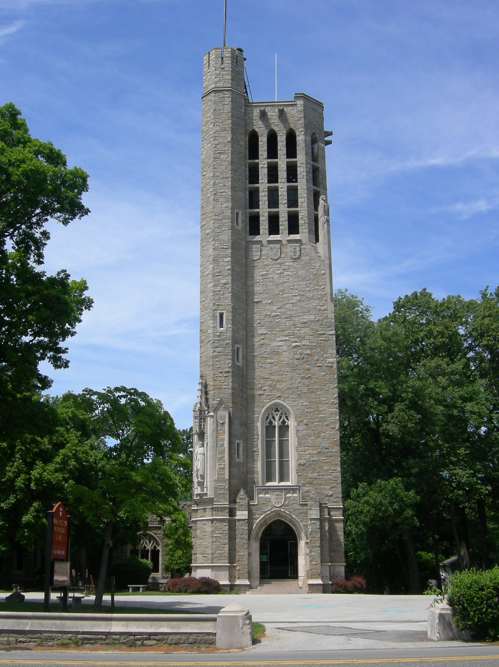 National Patriots Bell Tower (dedicated 1953), Washington Memorial Chapel, Valley Forge, Pennsylvania.